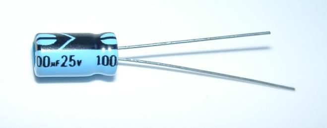 Close-up of an electrolytic capacitor.